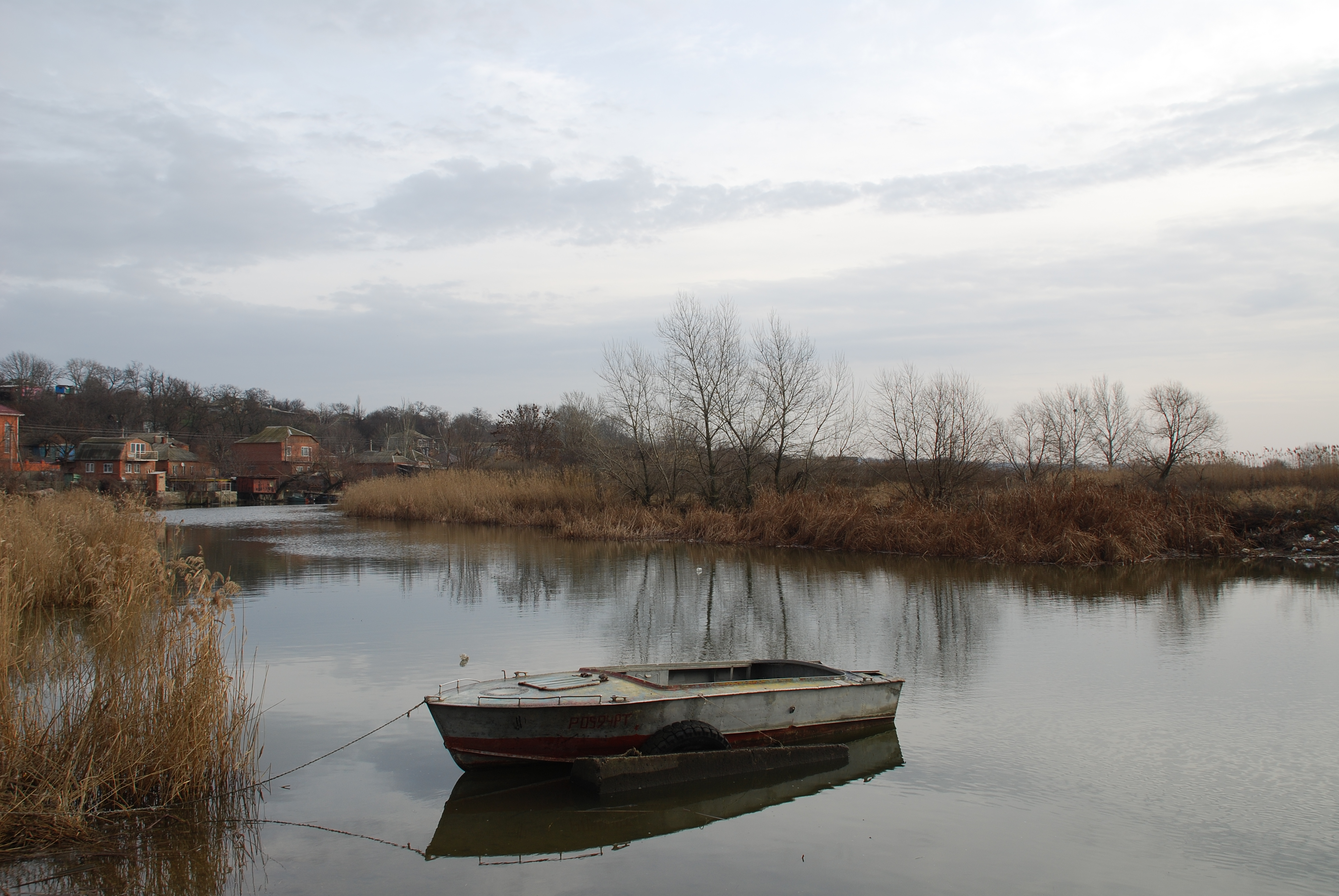 Boat on the Donskoy Chulek River.